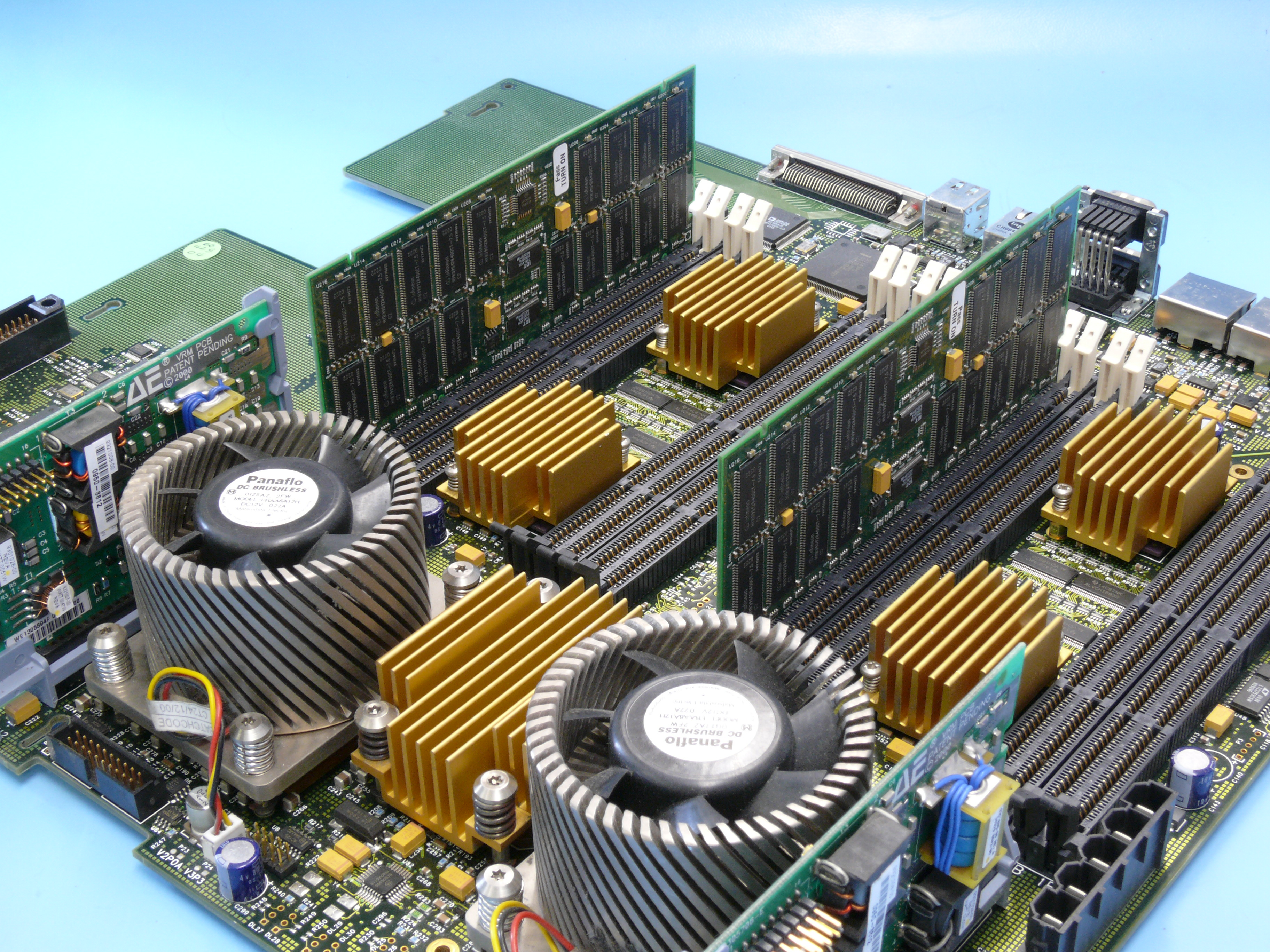 Hewlett-Packard HP9000 UNIX Workstation, Model J6000, HP9000/785, 2 x PA-RISC 8600 CPU - 64 Bit - 550 MHz - System- and CPU-Board - HP Part No. A5990-60010